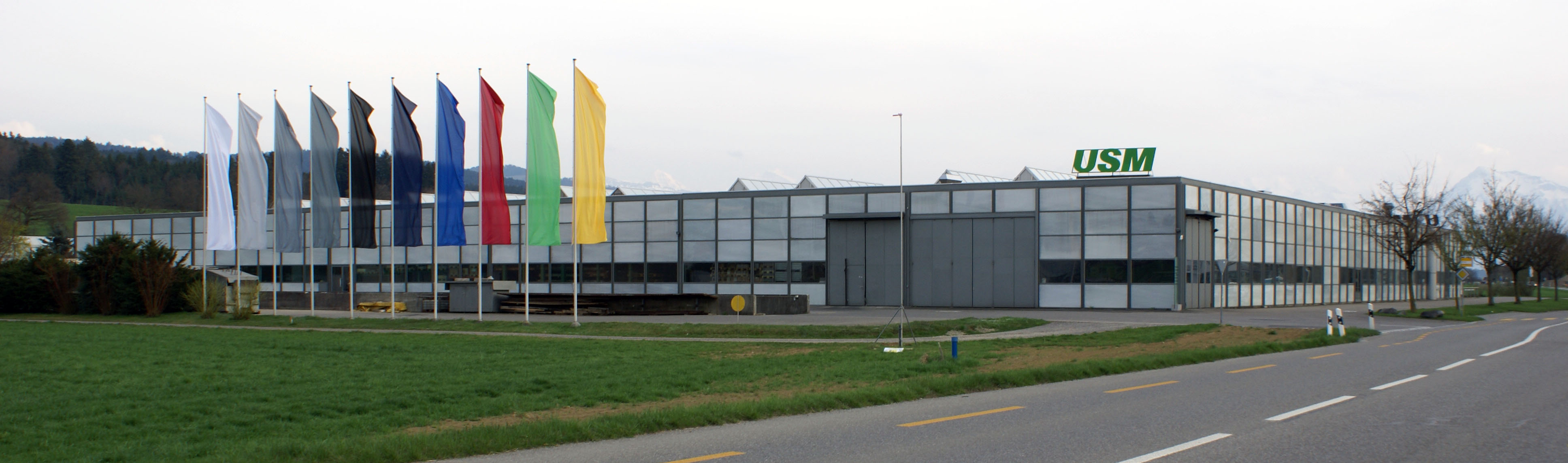 USM U. Schärer Söhne AG, office furniture manufacturer in Münsingen, Switzerland.